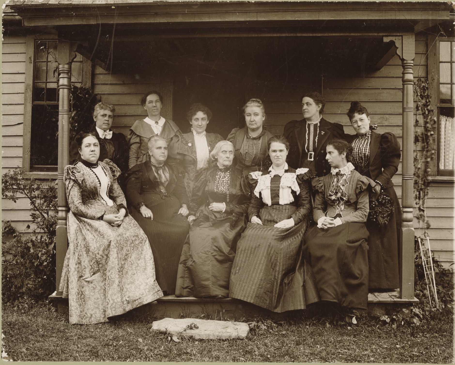 taken on the front porch of the family homestead in Adams, Massachusetts. Susan B. Anthony, the "Dowager Empress" of the early woman's rights movement, is seated at the center. Around her: Laura Clay, daughter of famed anti-slavery activist Cassius M. Clay, and co-founder in 1888 of the Kentucky Equal Rights Association. Anna Howard Shaw, the first female Methodist minister in the United States, a close confidant of Anthony, head of the National Woman Suffrage Association from 1904 to 1915, and later a leader of the Women's Christian Temperance Union. Alice Stone Blackwell (front row, far right), noted suffragist, editor of the leading woman's rights newspaper, the Woman's Journal, and recording secretary of the National Woman Suffrage Association, 1890-1918. Annie Kennedy Bidwell, wealthy supporter of woman's and temperance causes, and wife of the 1892 Prohibition candidate. Carrie Chapman Catt, one of the principal suffragists along with Anthony, and Elizabeth Cady Stanton, and chairperson of the National Association, 1895-1900. Ida A. Husted Harper (back row, far right), journalist and considered the unofficial "historian" of the woman's suffrage movement. One of its leading pamphleteers, and author of the authorized 3-volume biography of Anthony. Rachel Foster Avery, corresponding secretary of the National American Woman Suffrage Association during the 1890s. Also believed to be pictured are Winfred Harper and Mary Hayes.